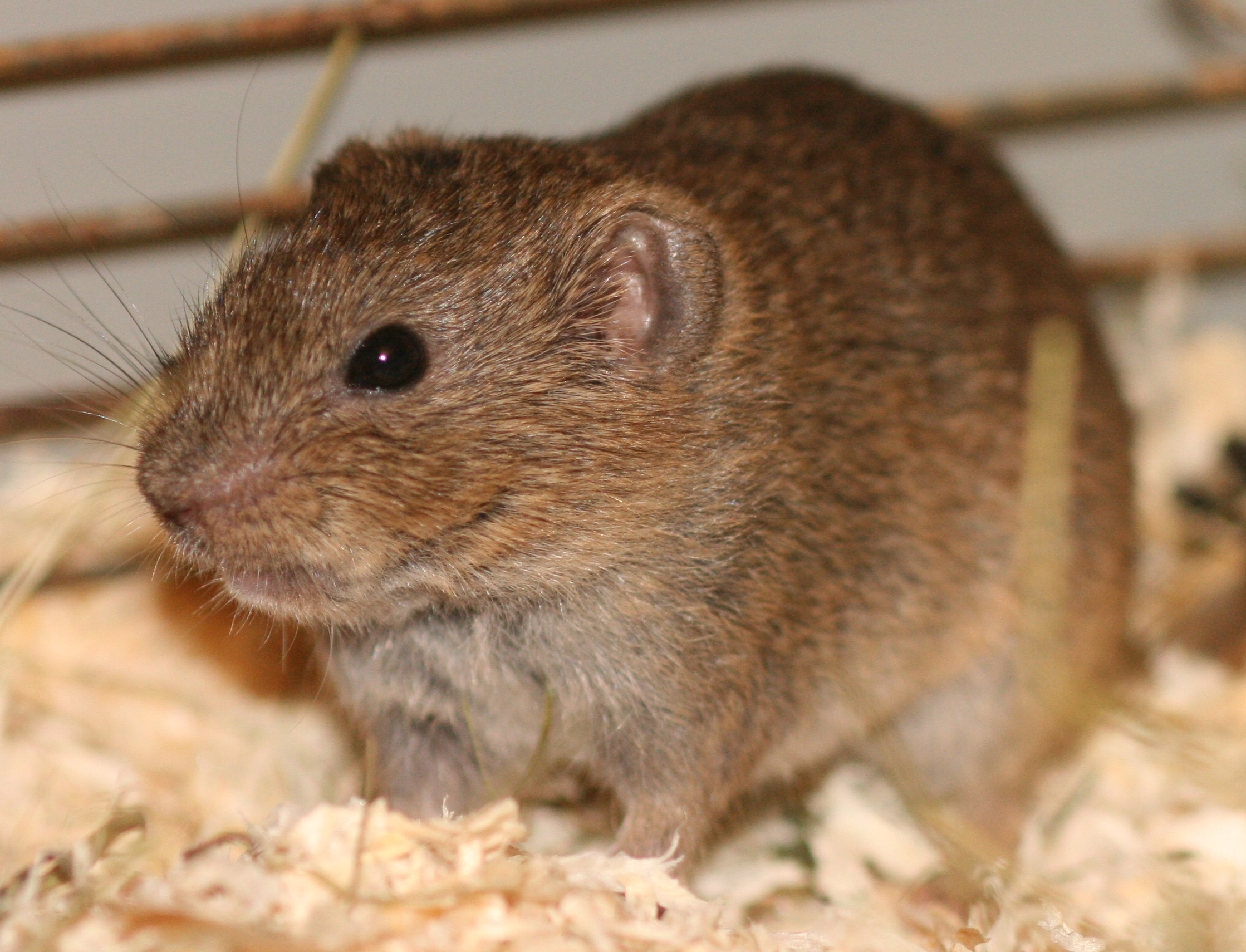 Synaptomys cooperi as pet (young)